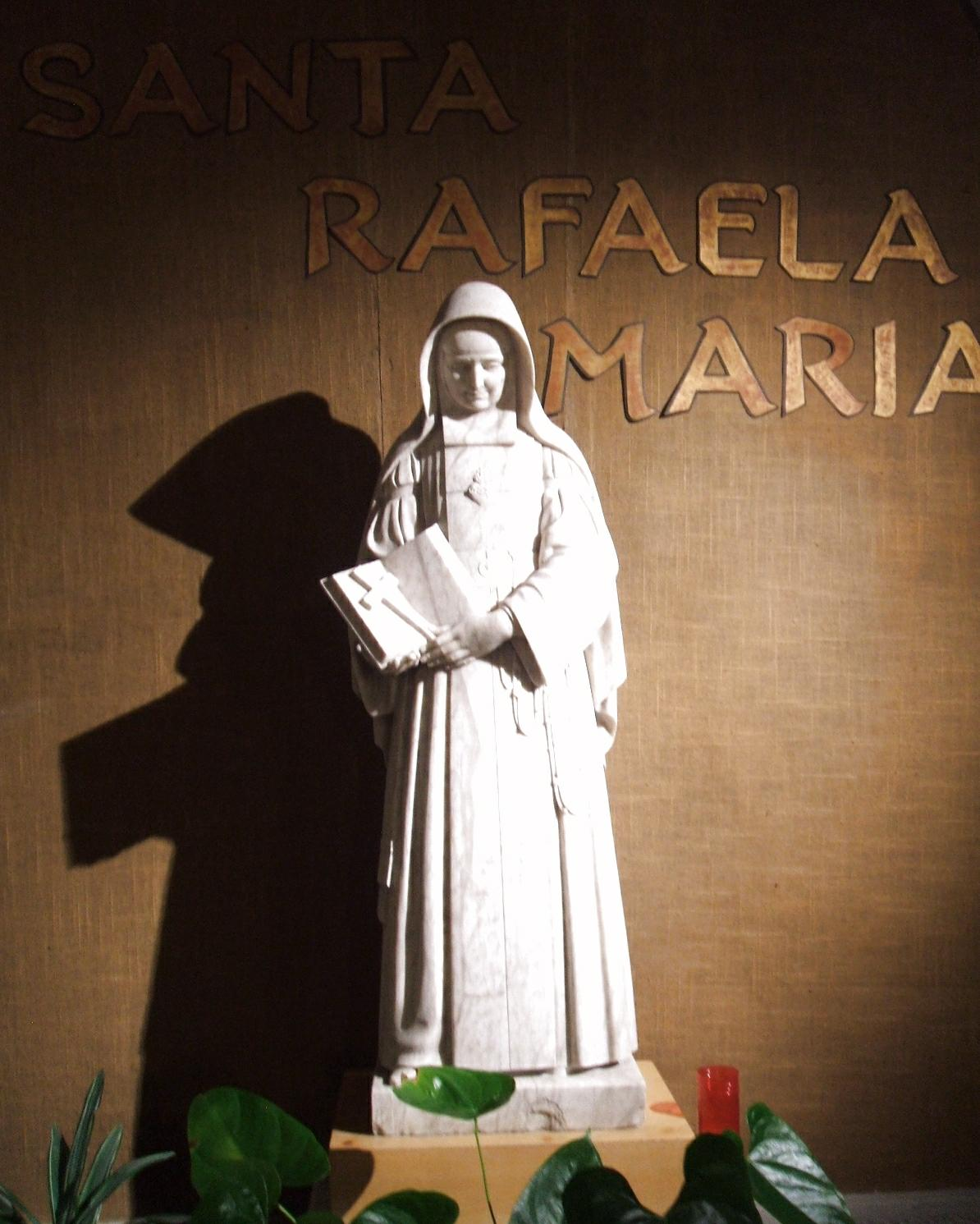 Estatua de Santa Rafaela María, fundadora de las Esclavas del Sagrado Corazón de Jesús, en la iglesia del convento de la orden en Burgos (Castilla y León, España)